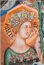 Bible of Naples